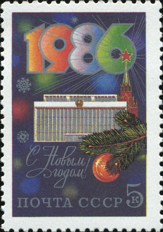 A USSR stamp, Happy New Year. Date of issue: 3rd December 1985. Designer: A. Savin. Michel catalogue number: 5558. Miniature Sheet Klb.5558. 5 K. multicoloured. Kremlin palace of congresses and Troitsky tower.